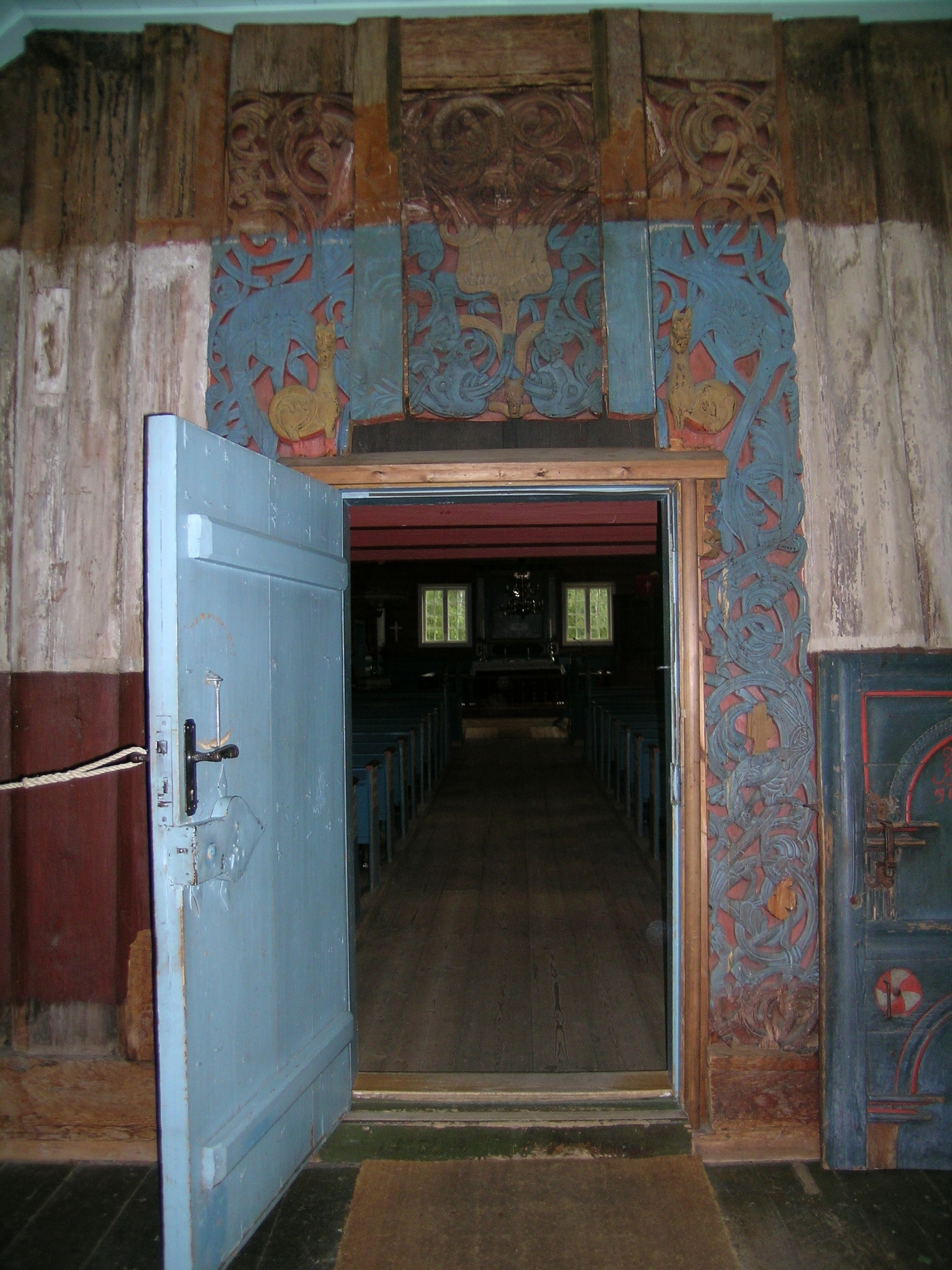 Flesberg stave church. The medieval portal.